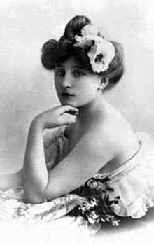 "Colette" was the pen name of the French novelist Sidonie-Gabrielle Colette (January 28, 1873 – August 3, 1954).